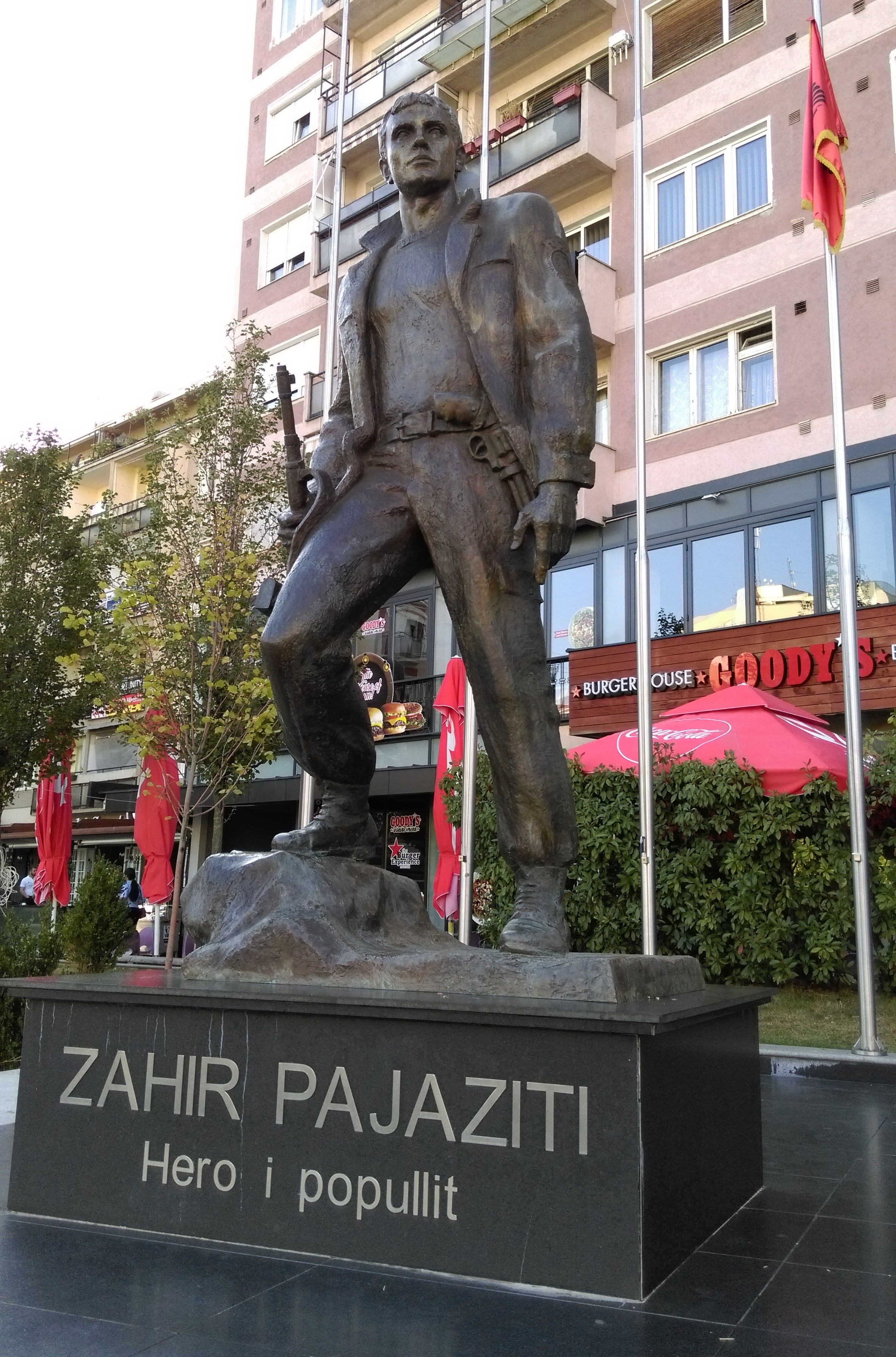 Zahir Pajaziti Monument in 2018